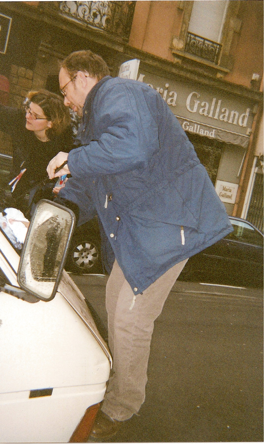 On the set of The Girl from the Chartreuse in Grenoble (France). Actor Olivier Gourmet helps the script supervisor to wash the windscreen of the van used in the movie.